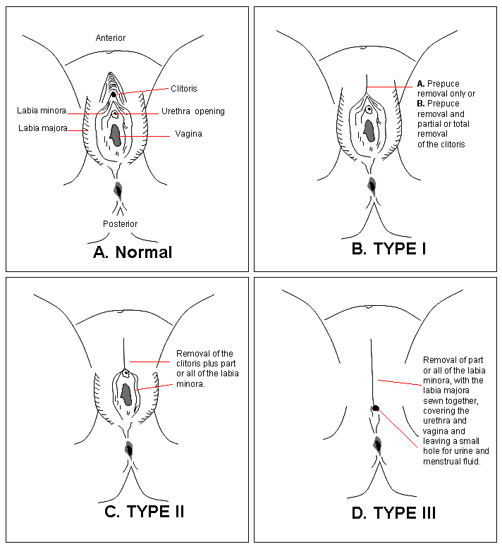 Image created by Kaylima.